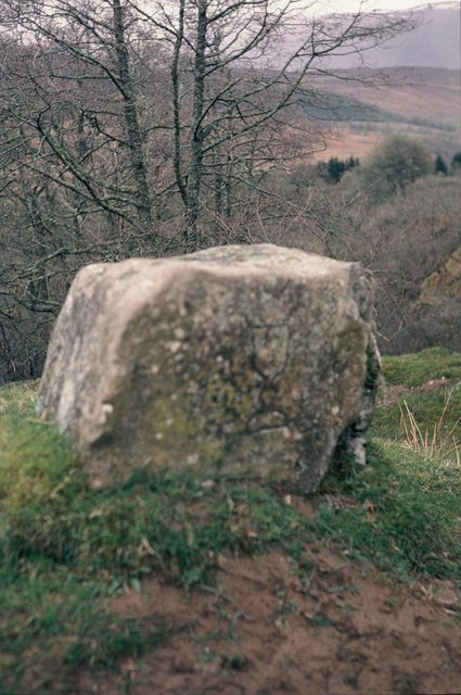 Chalice Stone Known in Gaelic as the Clach na h-Ailfrionn or Stone of the Mass it was used as an altar during the period of religious intolerance. It is carved with a chalice and host on its W facing side.